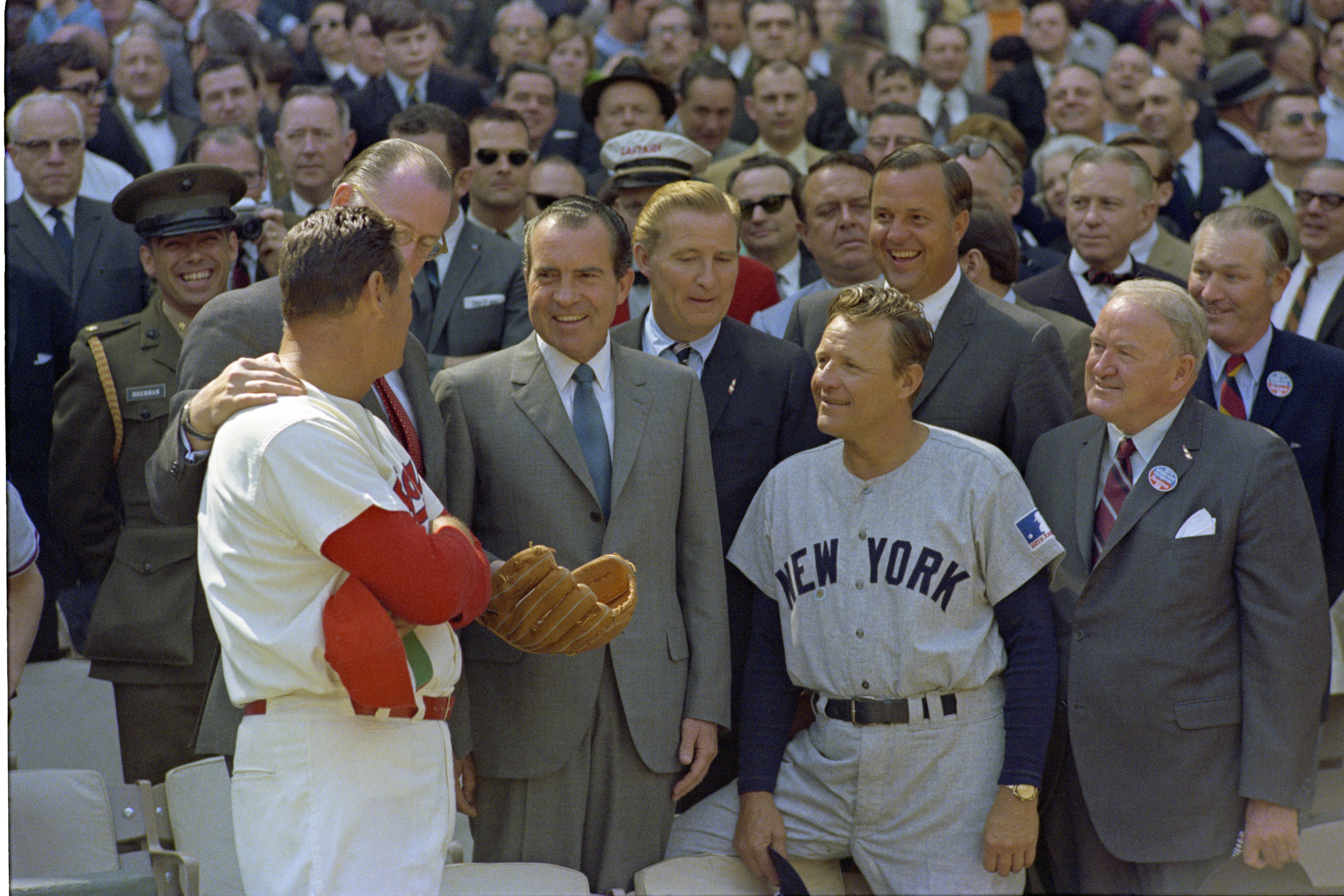 President Richard Nixon enjoys opening day at RFK Stadium. The Washington Senators manager is Ted Williams. New York's manager is Ralph Houk. Hand on Williams's shoulder is baseball commissioner Bowie Kuhn. Bob Short is between Nixon and Houk. Man in front with button is American League president, Joe Cronin. Man in uniform is Nixon aide Jack Brennan.